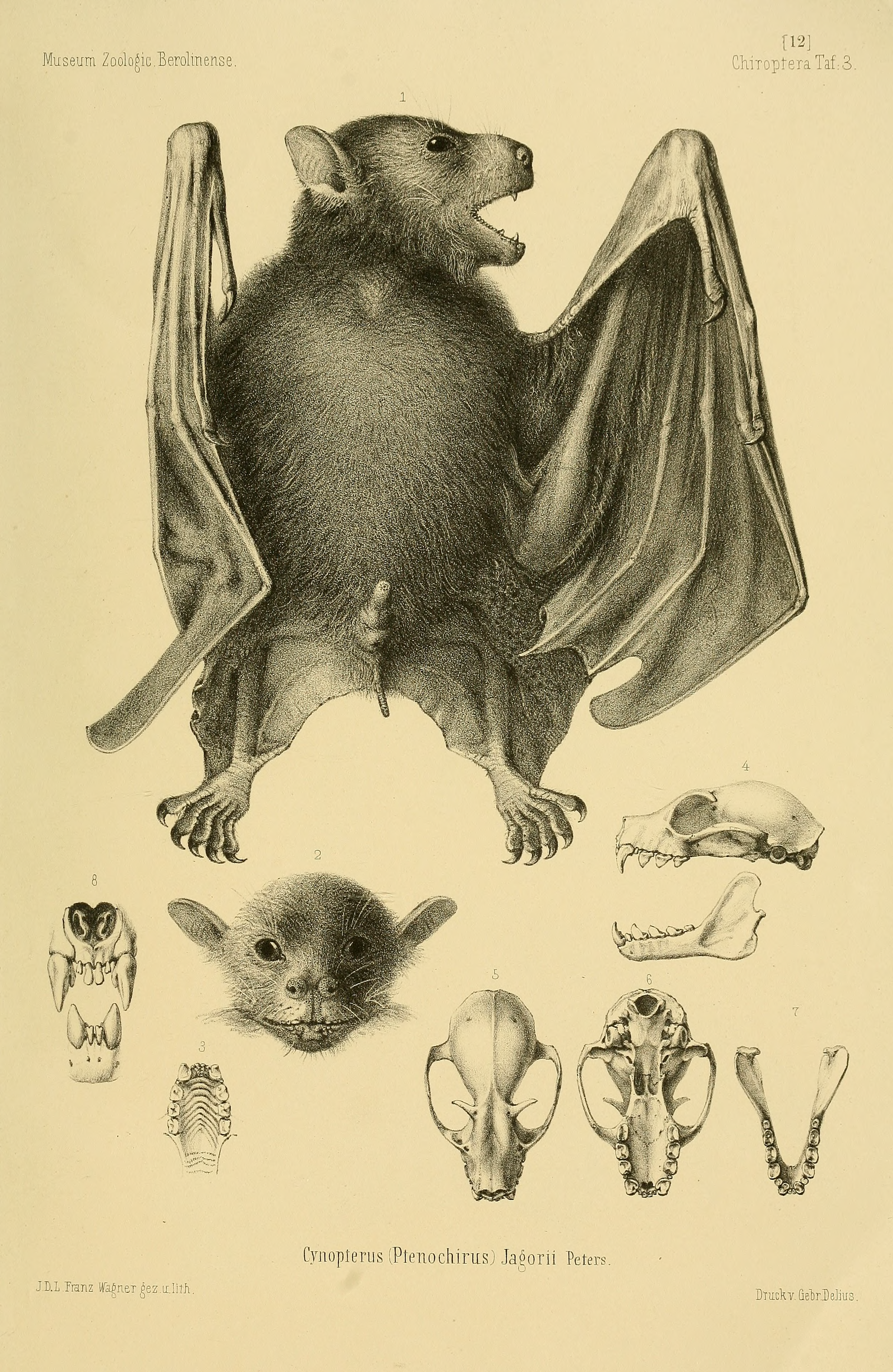 The Greater Musky Fruit Bat (Ptenochirus jagori), a species of bat in the Pteropodidae family which is endemic to the Philippines. This image (plate 12) came from the book 'Die Fledermäuse des Berliner Museums für Naturkunde. 1. Lieferung. Die Megachiroptera des Berliner Museums für Naturkunde. (1899)' by Paul Matschie. The drawing itself is made by J.D.L. Franz Wagner.